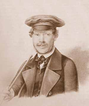 Portrait of Sergei Sobolevsky (1803-1870)